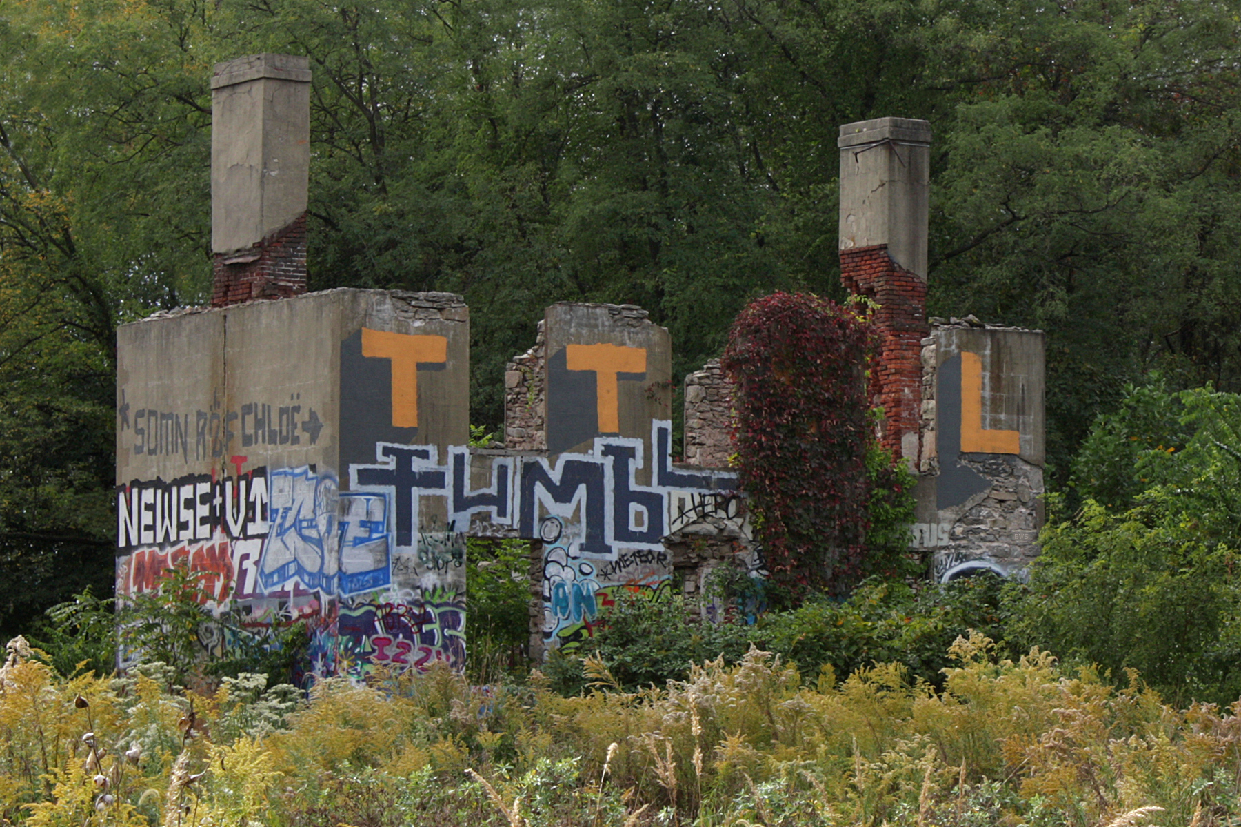 The Cliffs Mansion, Fairmount Park, Philadelphia, Pennsylvania